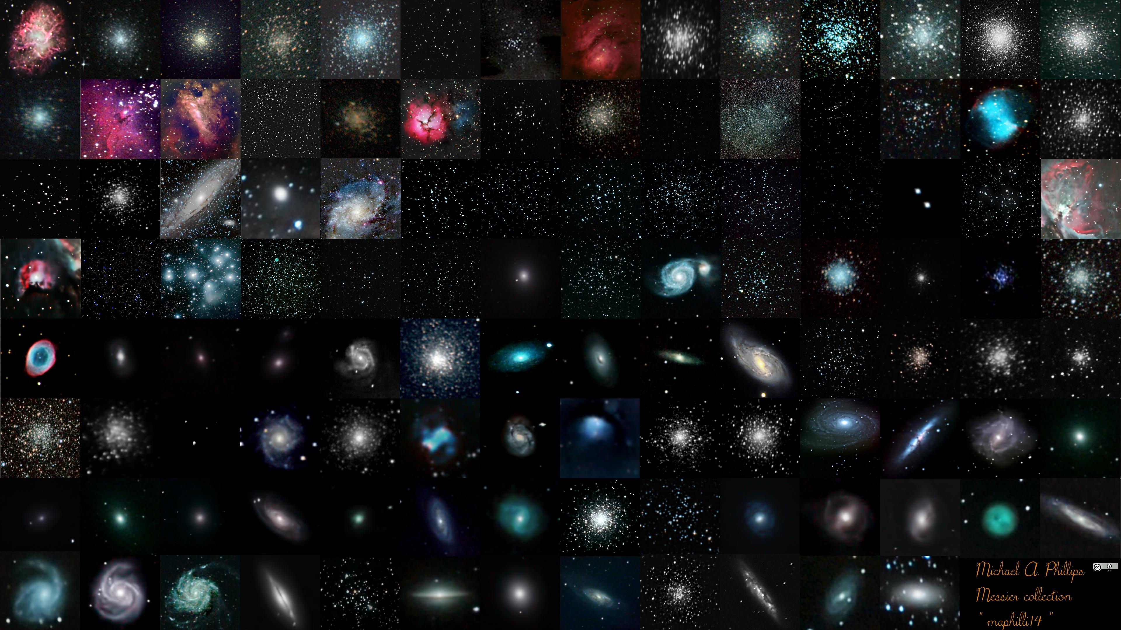 Compilation made by an amateur astronomer